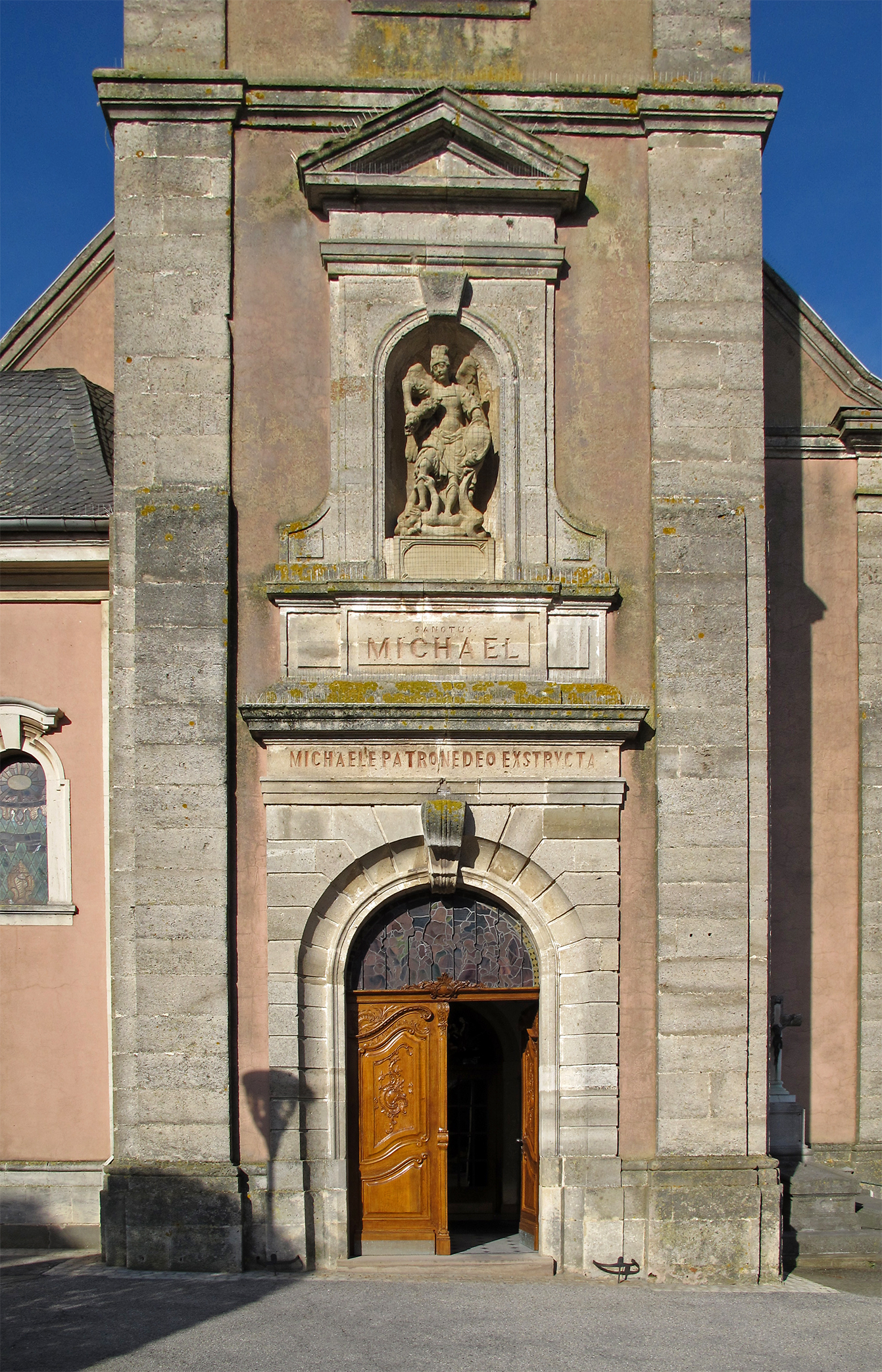 Church of Mondorf, Luxembourg